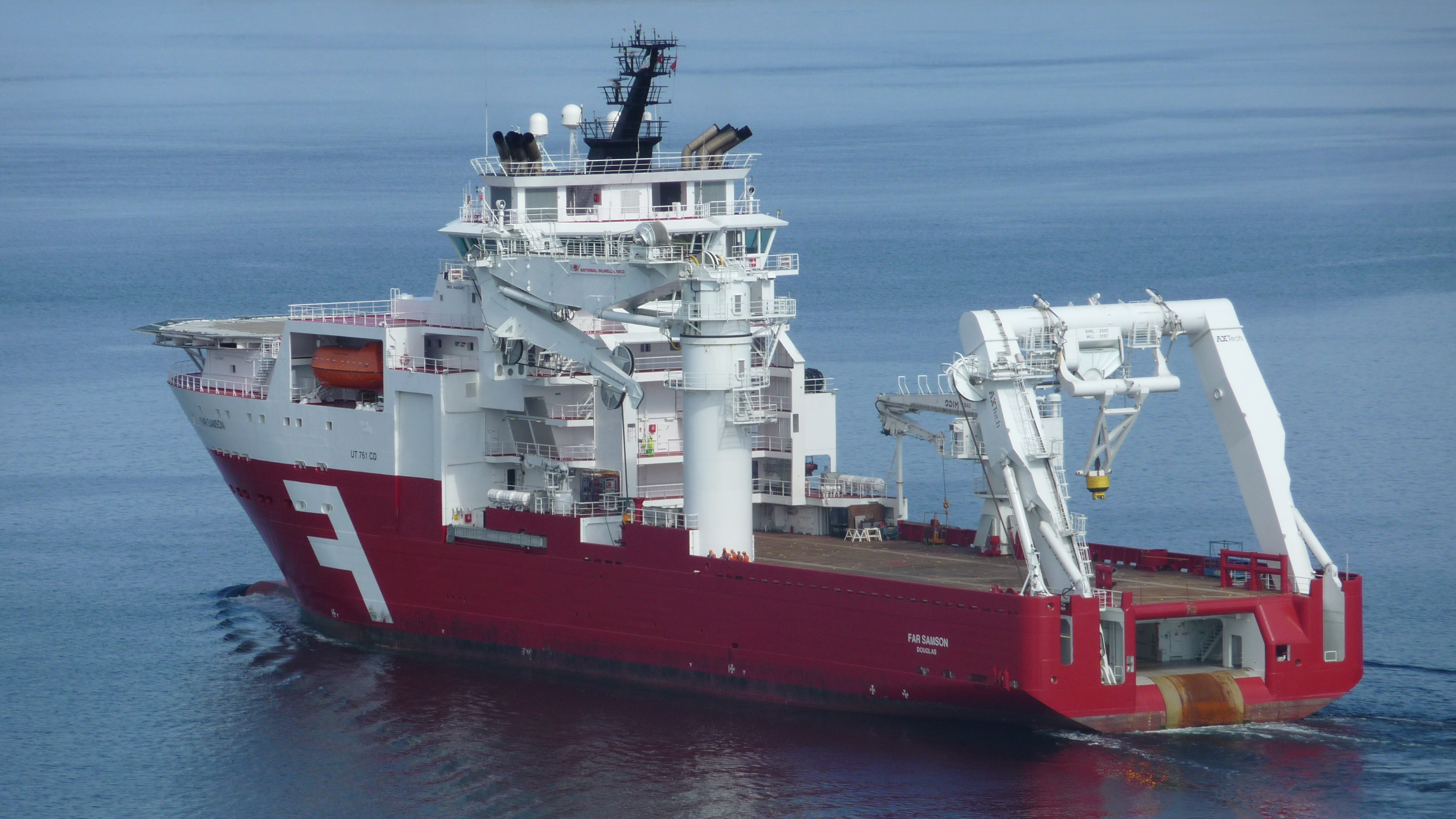 Far Samson departed from Mekjarvik